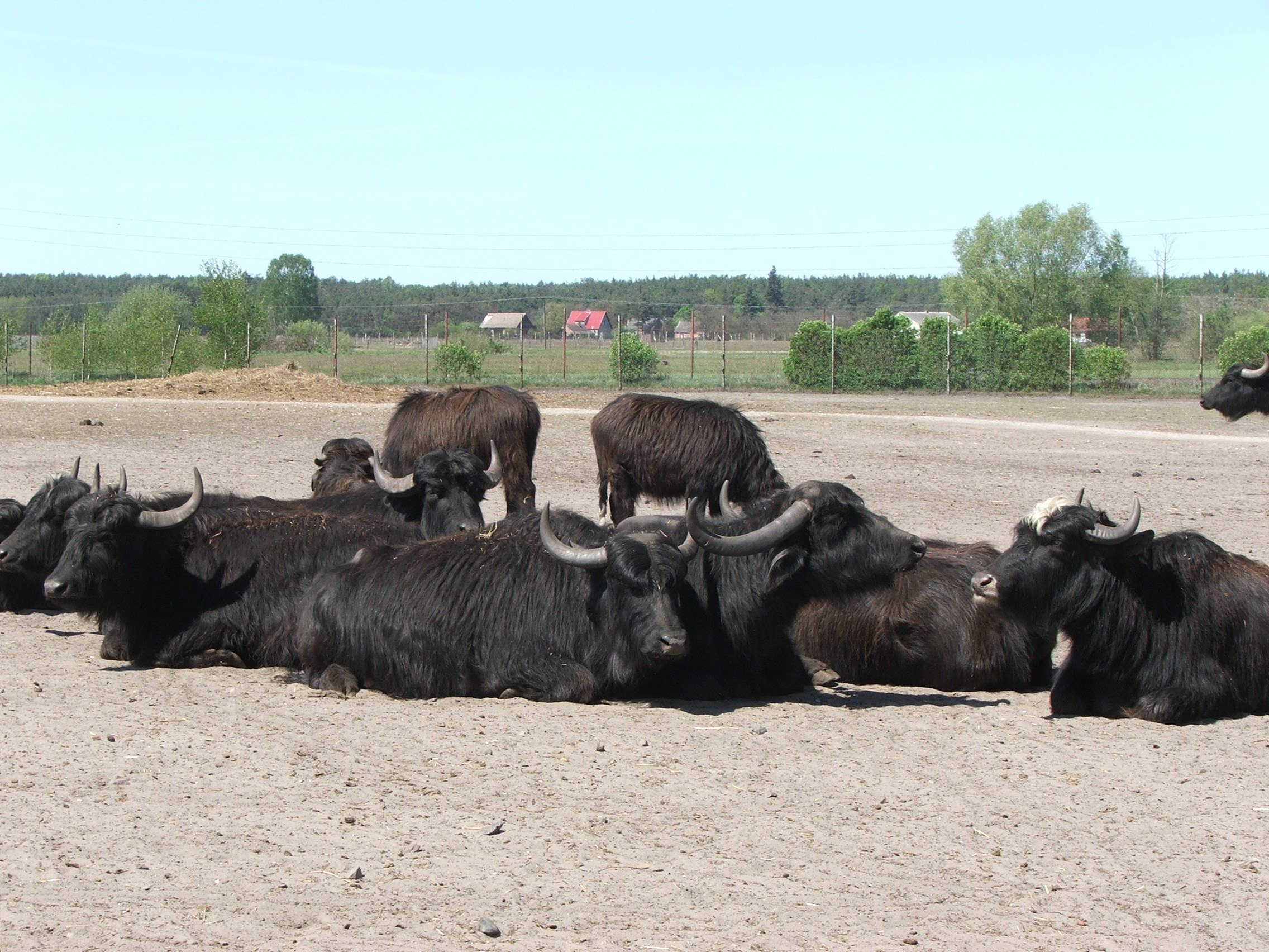 Bubalus bubalis, Zoo Safari in Świerkocin, Poland